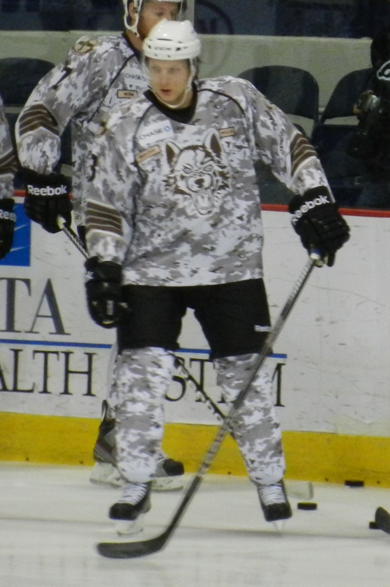 Zach Miskovic playing for the American Hockey League's Chicago Wolves during their Military Appreciation Night in 2013